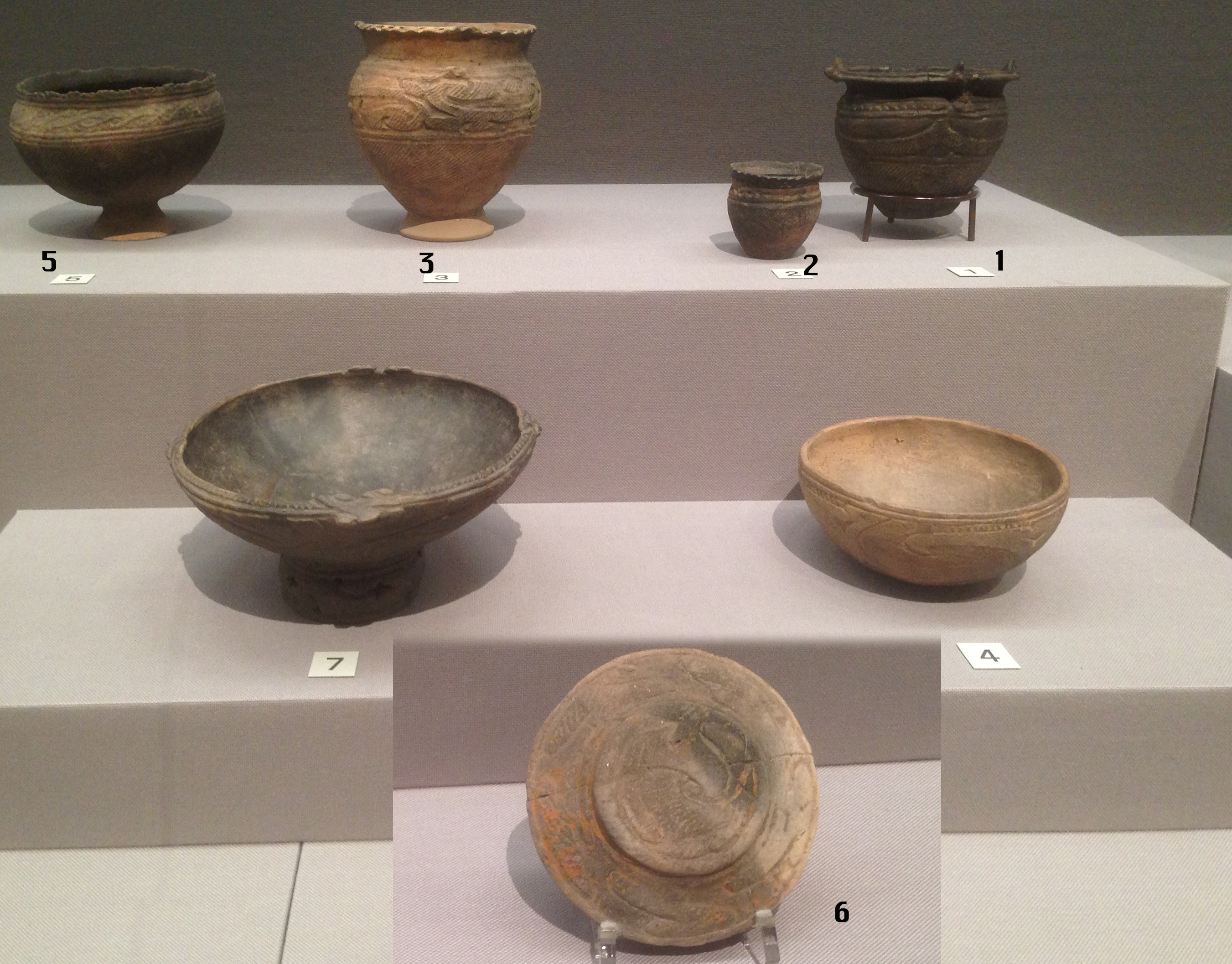 Final Jomon Pottery (1000-400 BC.) of Tohoku District. Tokyo National Museum. 1 Deep Bowl, 2 Deep Bowl, 3 Footed Deep Bowl, 4 Bowl, 5 Footed Bowl, 6 Shalow Bowl, 7 Footed Shallow Bowl.